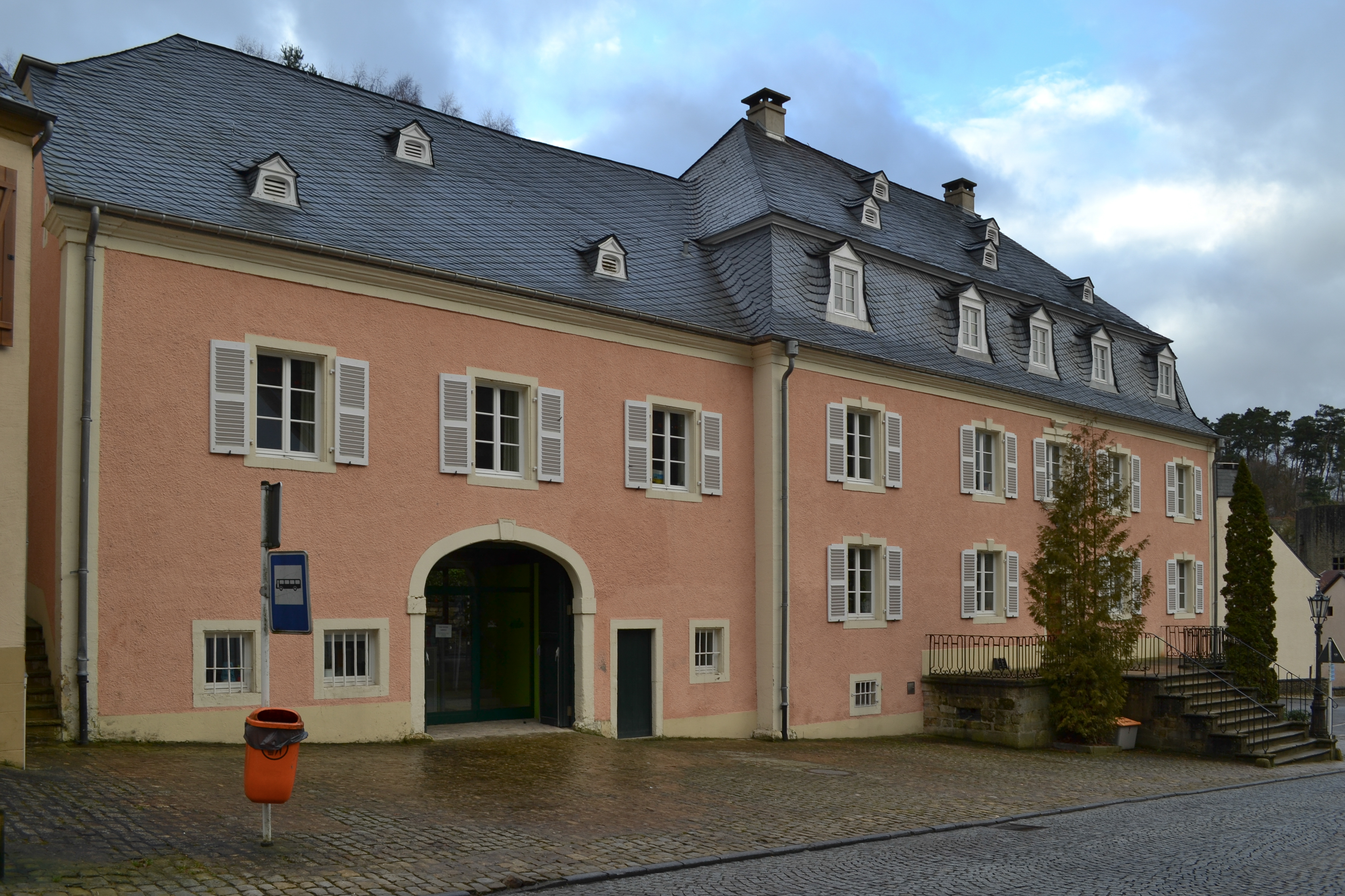 Hostel in Bourglinster, Luxembourg. Classified national monument.